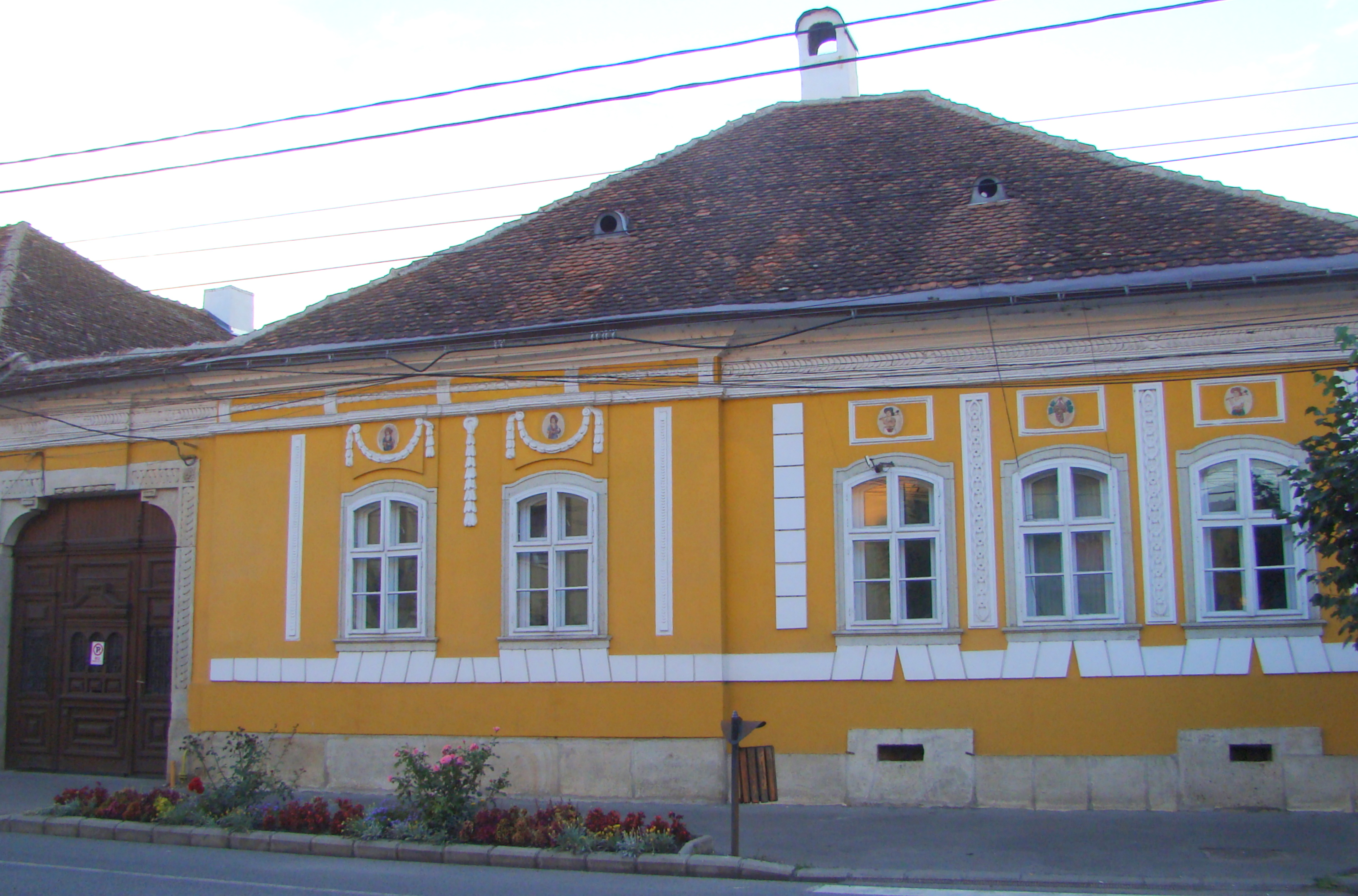 House, historic monument in Gherla, 1 Decembrie 1918 street, nr 10